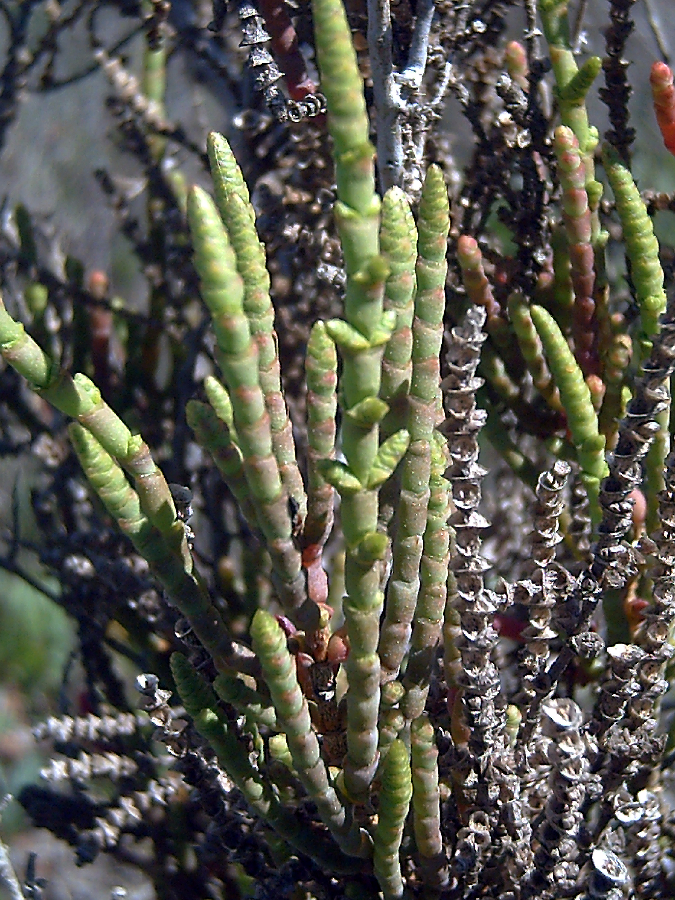 Arthrocnemum_macrostachyum en La Mata Torrevieja, Spain.